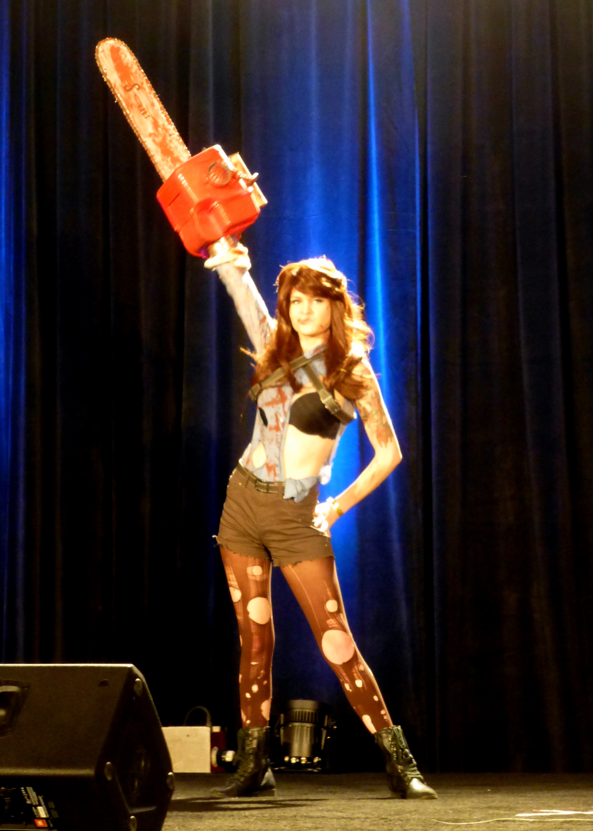 Ash Costume contest at the 2015 Wizard World Chicago.